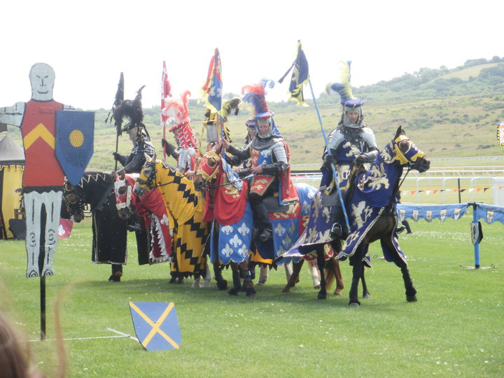 Medieval Festival at Ffos Las. One of the many varied events often held at the racecourse.